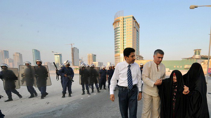 Nabeel Rajab and Abdulhadi Alkhawaja helping an old woman after police attacked a peaceful protest in August 2010